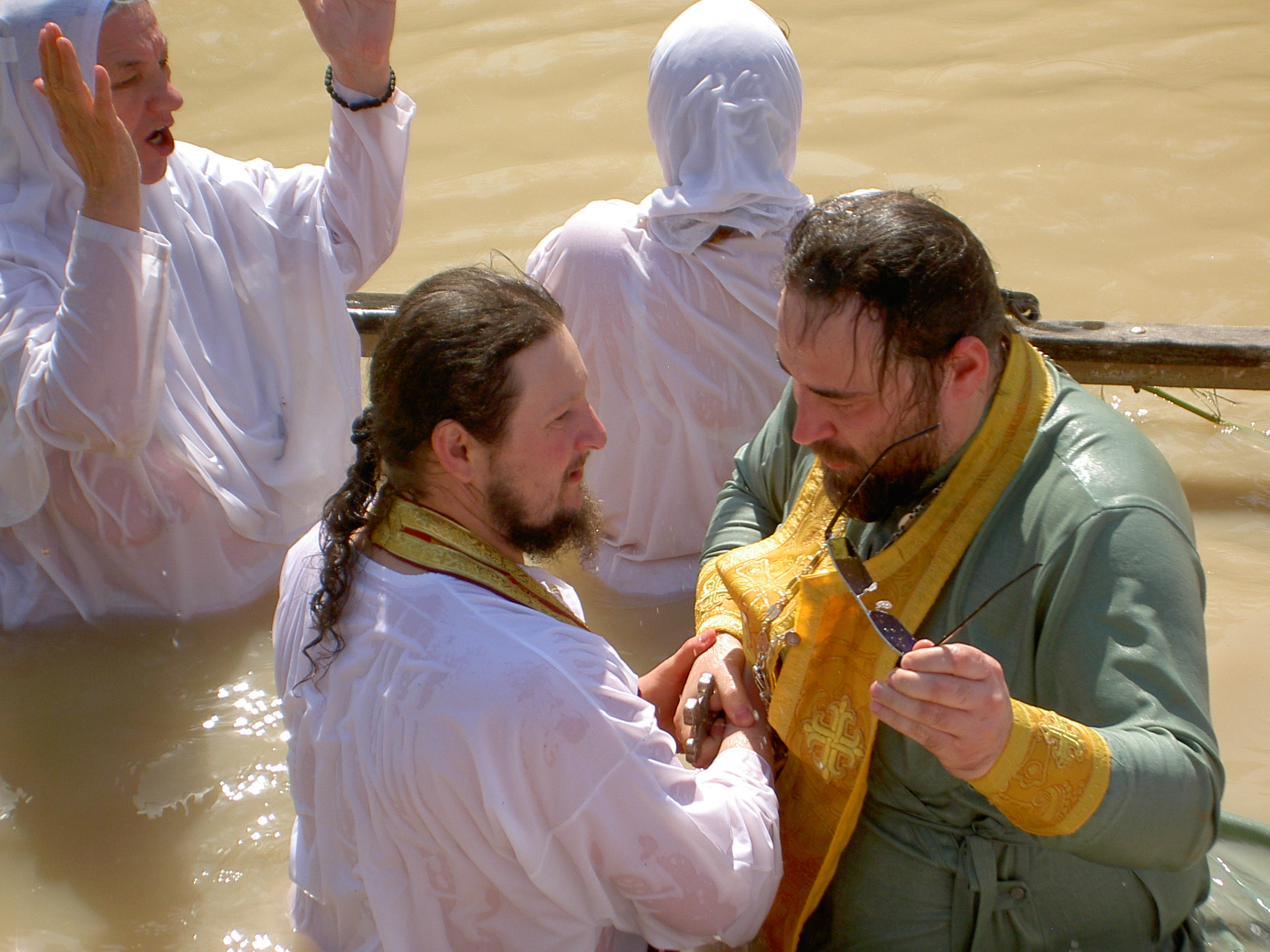 April 24, 2011 Last week, (Wednesday, April 20th), 3,000 Syriac Orthodox, Greek Orthodox, and Coptic pilgrims and bishops participated in a traditional baptism ceremony for the upcoming Easter holiday at the Qasr Al-Yahud baptism site in the Jordan Valley. The pilgrims were accompanied by IDF officers and soldiers from the Jordan Valley Division as well as Civil Administration officers. Both the Israeli government and the IDF have worked hard to make the necessary arrangements to accommodate the mass pilgrimage to the site over the past year. The Civil Administration and the Ministry of Tourism have invested thousands of shekels on renovating the site and installing proper facilities for the pilgrims. For more information on the Epiphany ceremony in Qasr Al-Yahud in January, 2011